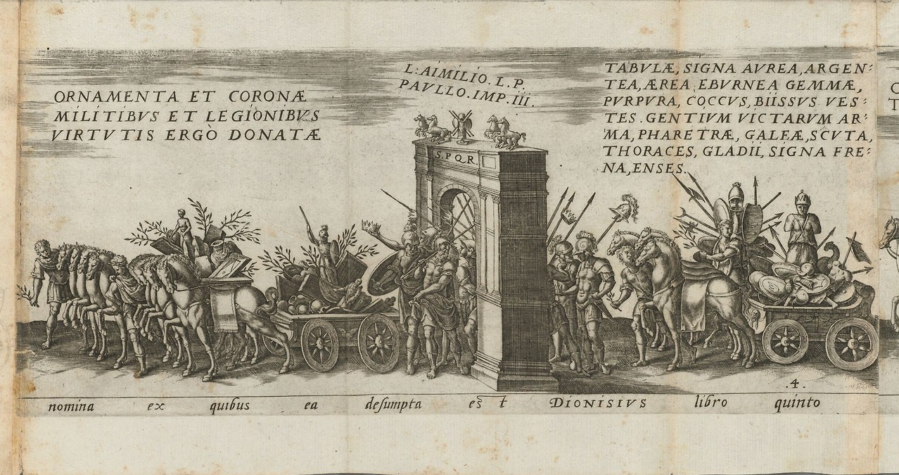 One of twelve engravings depicting Roman emperors from Amplissimi ornatissimiq[ue] triumphi, 1619, by Onofrio Panvinio (1529-1568). Together, the image is more than 14 feet long. Typ 625.18.672, Houghton Library, Harvard University